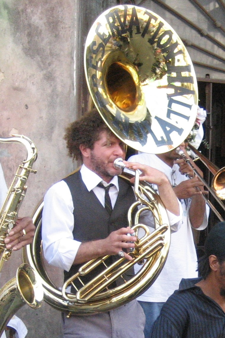 Ben Jaffe performing with the Preservation Hall Jazz Band outside of Preservation Hall, New Orleans, Louisiana, October 1, 2007.